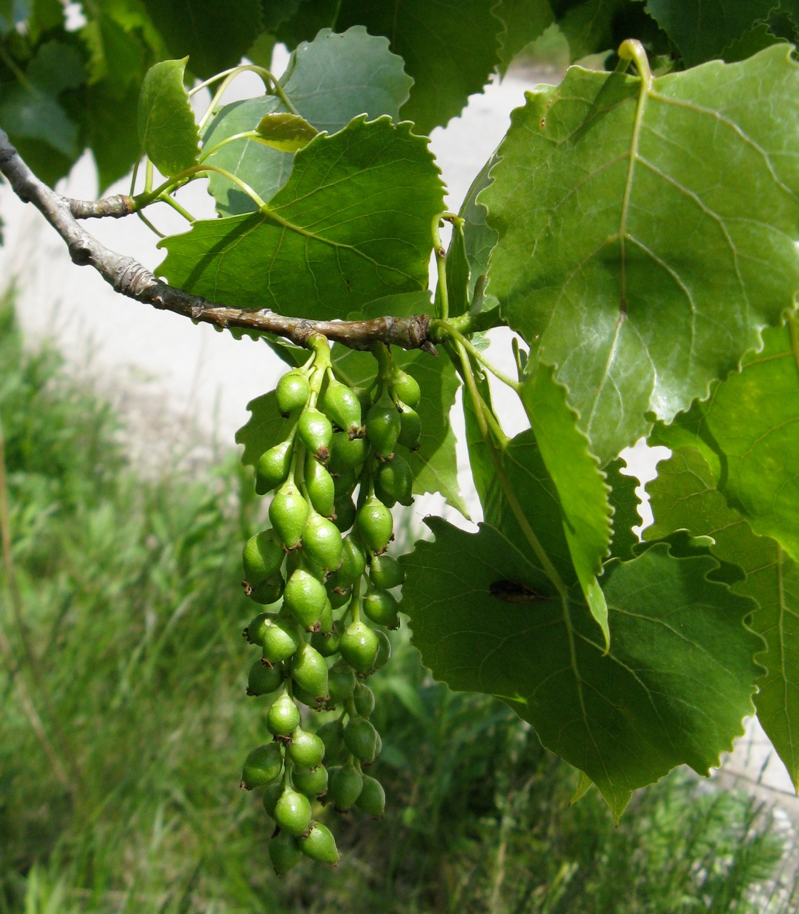 Populus deltoides subsp. monilifera female catkin